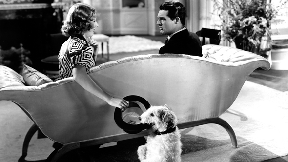 Promotional photograph for the film The Awful Truth From left: Irene Dunne, Skippy, Cary Grant